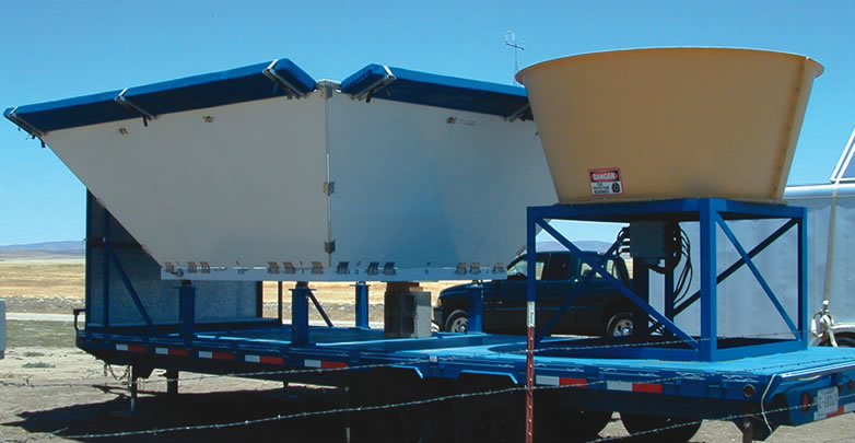 A portable SODAR wind profiling system